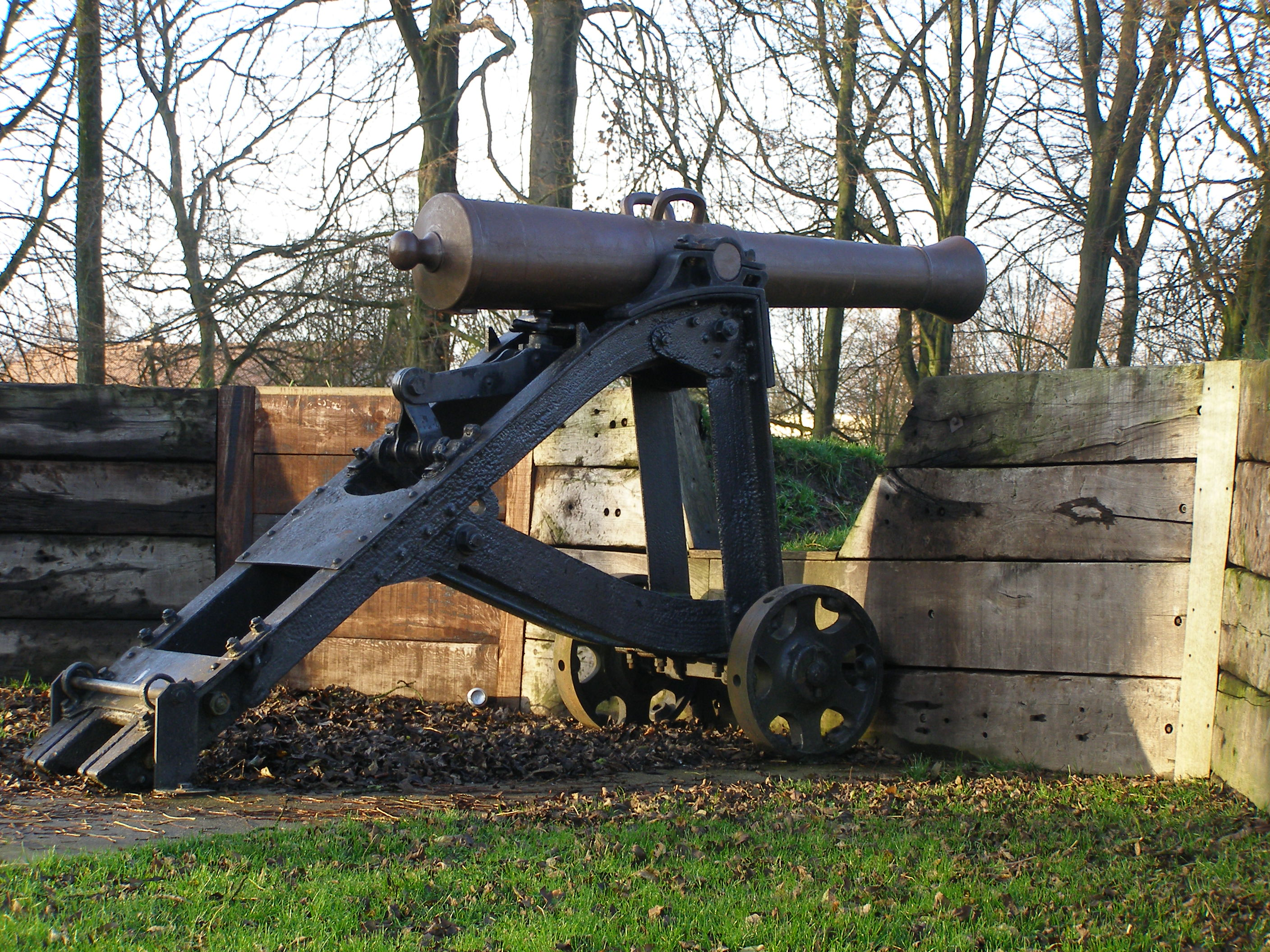 Canon in the walls.